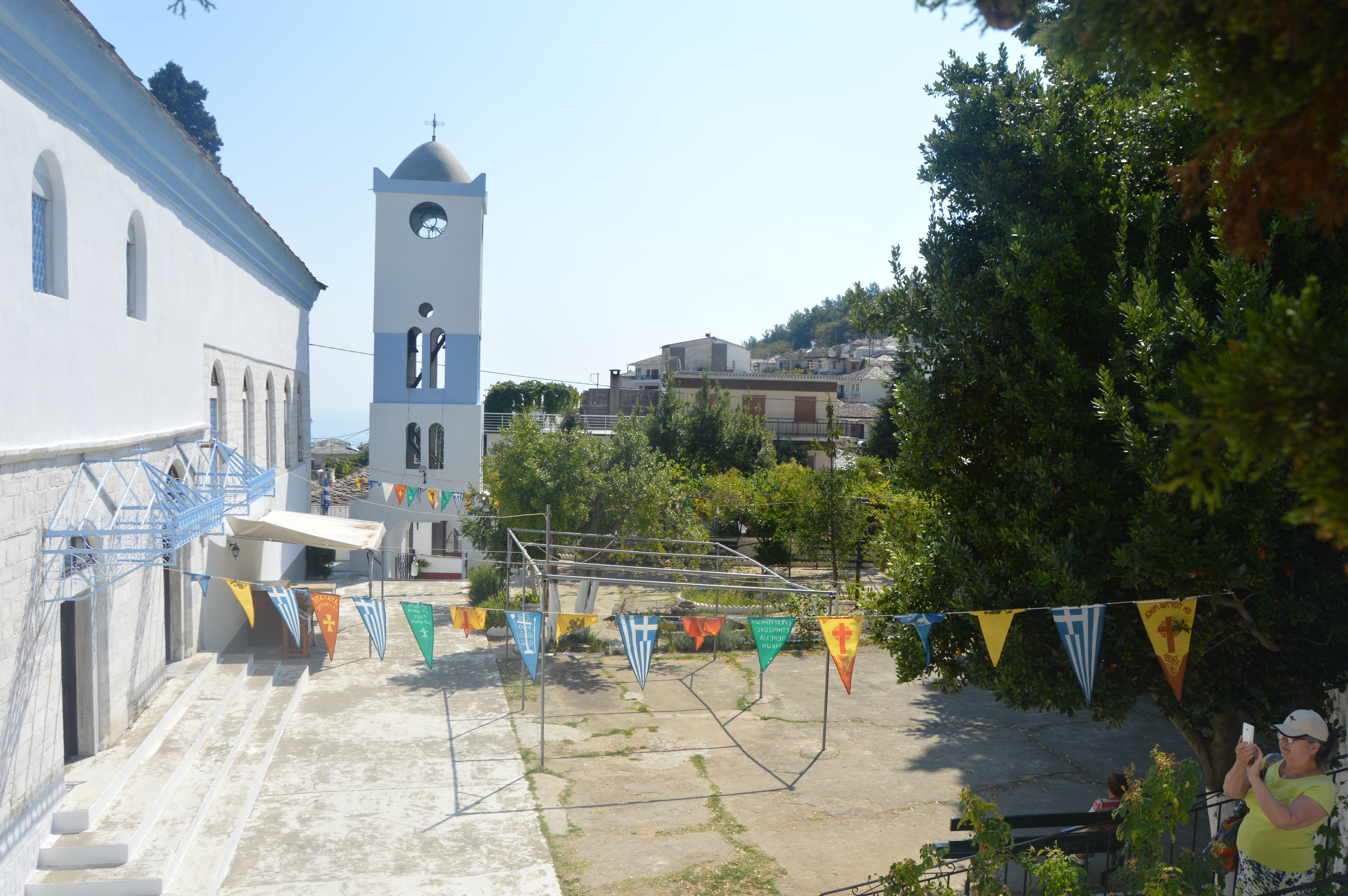 The Holy Virgin Church in Panagia on the island of Thassos in Greece.